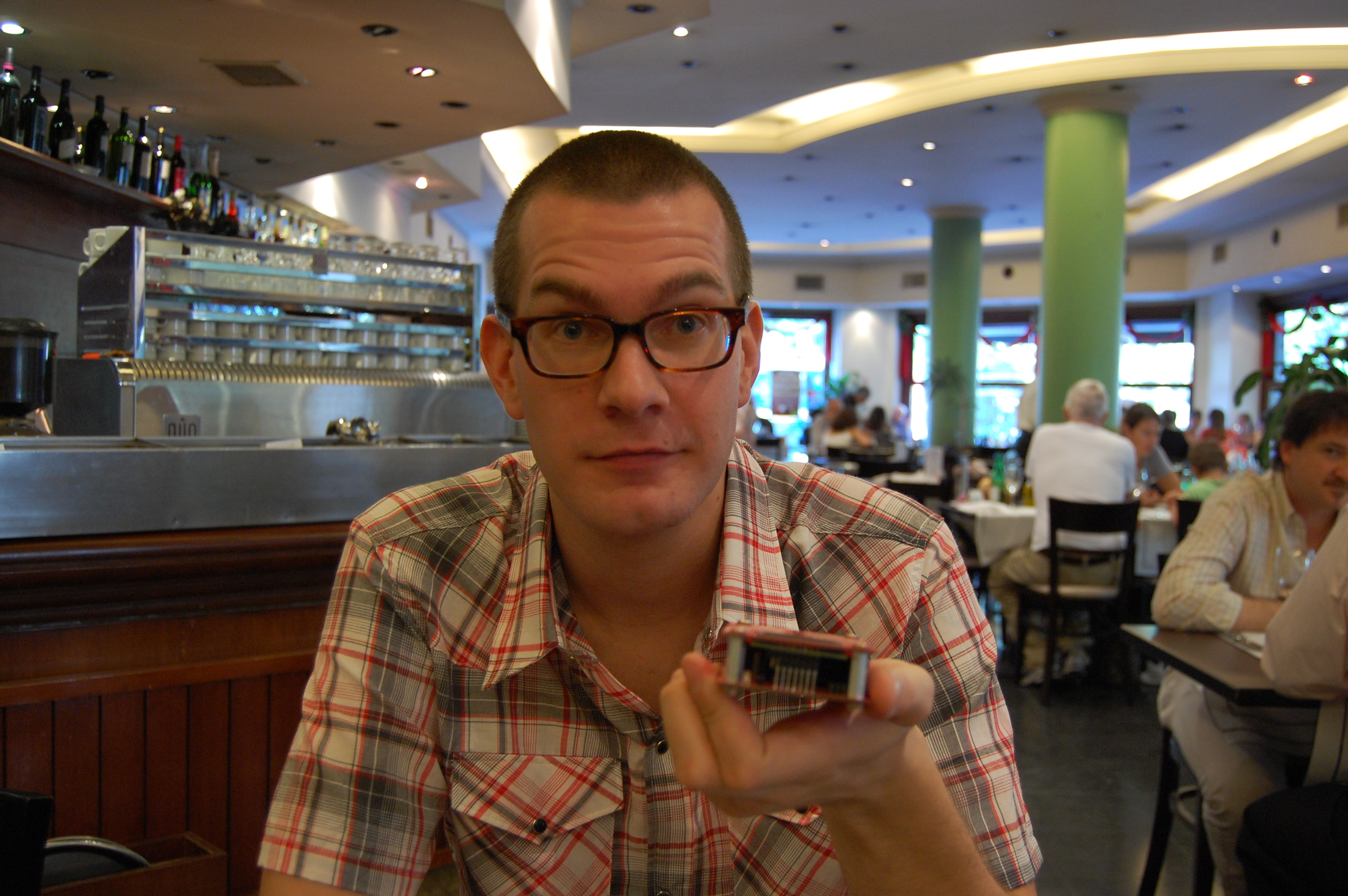 Haje Jan Kamps testing his triggertrap with Nikon D40 by Beatrice Murch